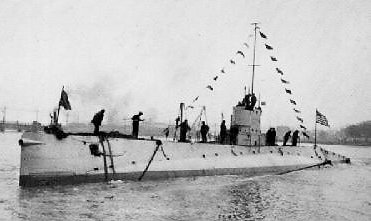 United States Navy submarine , probably just after she was launched.